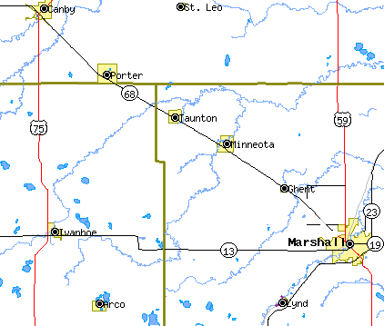 Vicinity of Taunton, Minnesota, showing towns important to the search for Brandon Swanson in May 2008 and subsequently